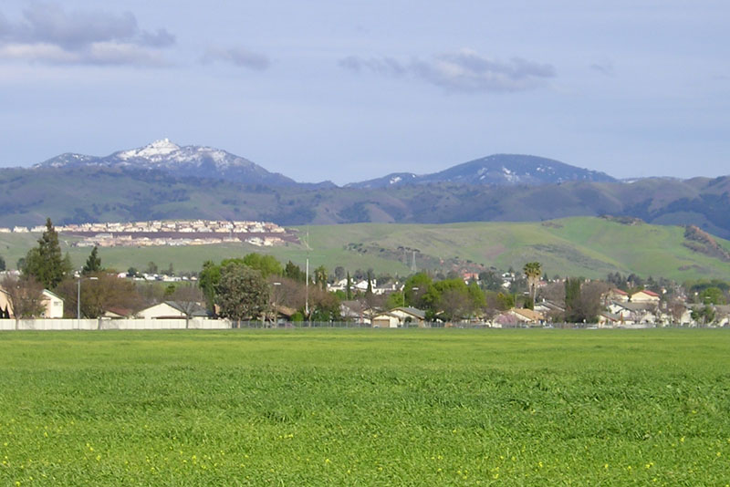 Mount Hamilton (California) with snow. Taken by User:Elf March 4, 2006.